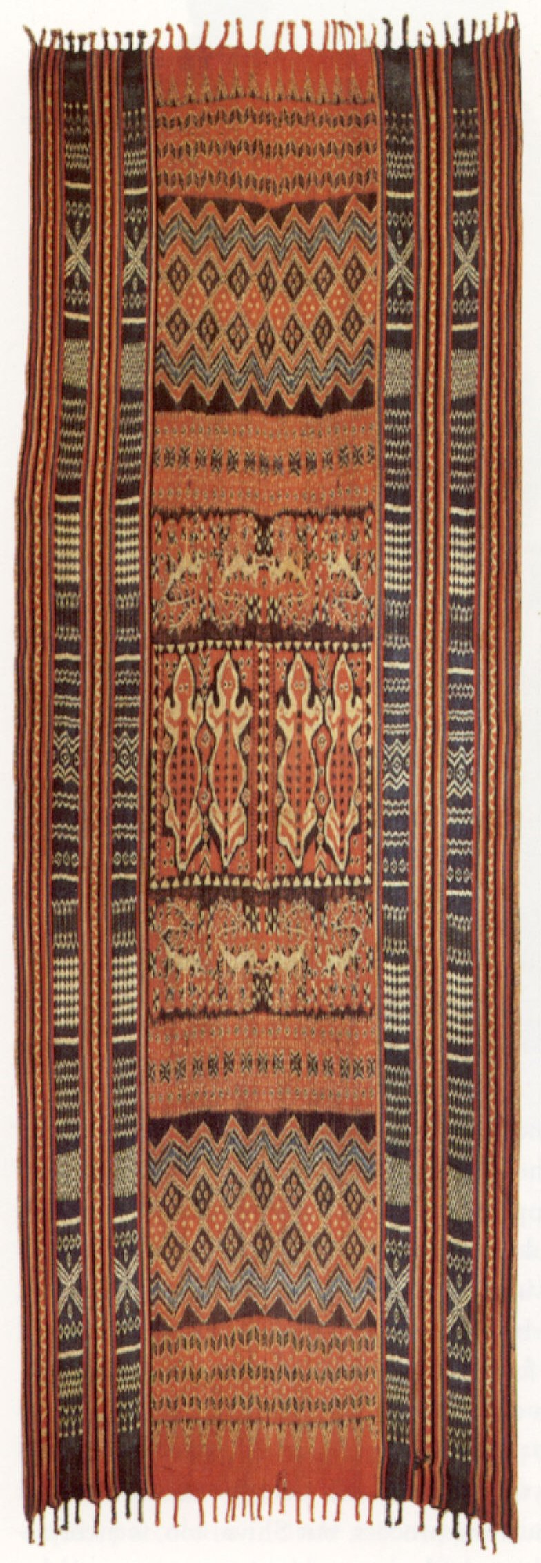 Indonesian funeral shroud or hanging, (porilonjong), Central Sulawesi (Celebes), Rongkong, Toraja, cotton with ikat paterns, Honolulu Museum of Art